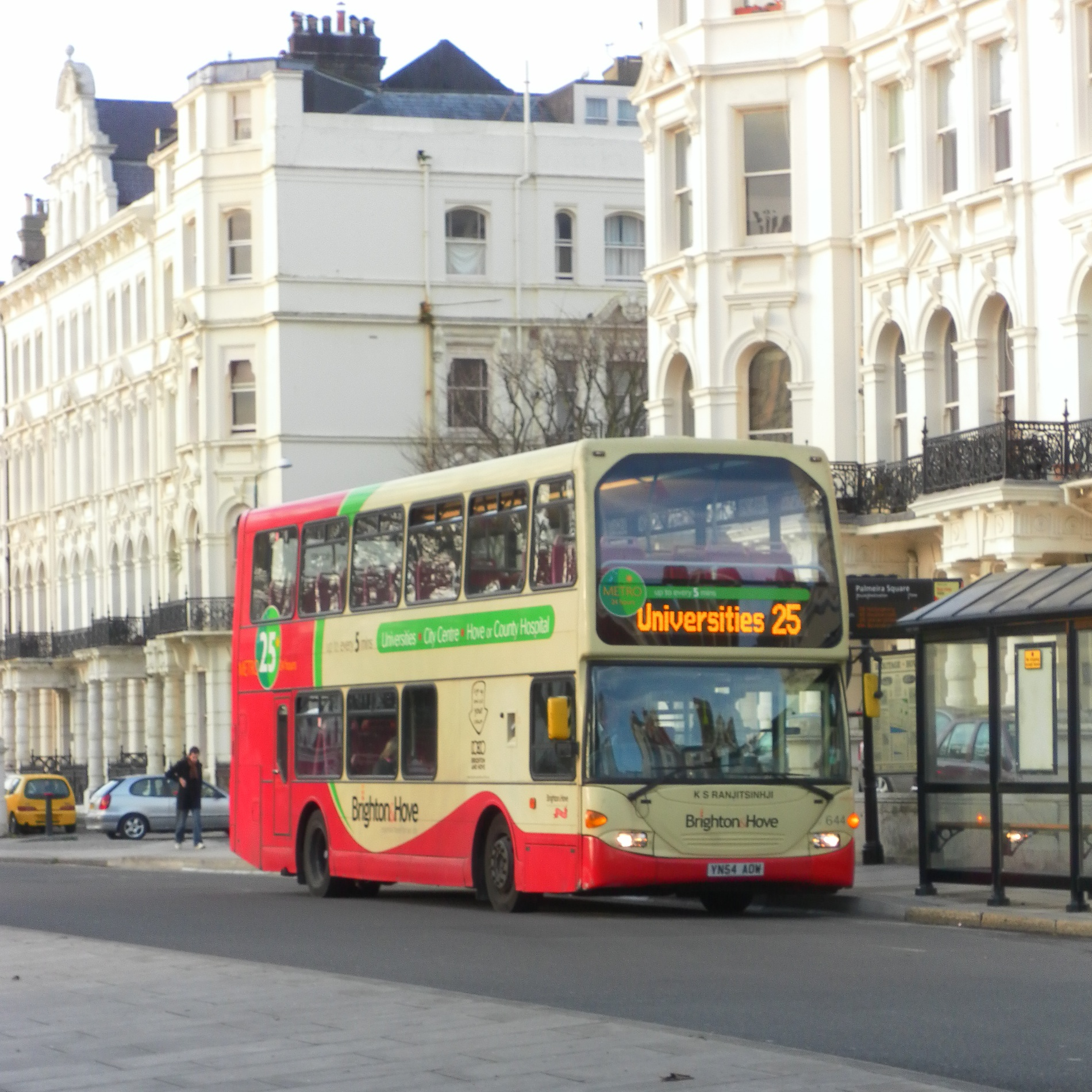 YN54 AOW is just starting a route #25 service to the Universities on 10th December 2011.